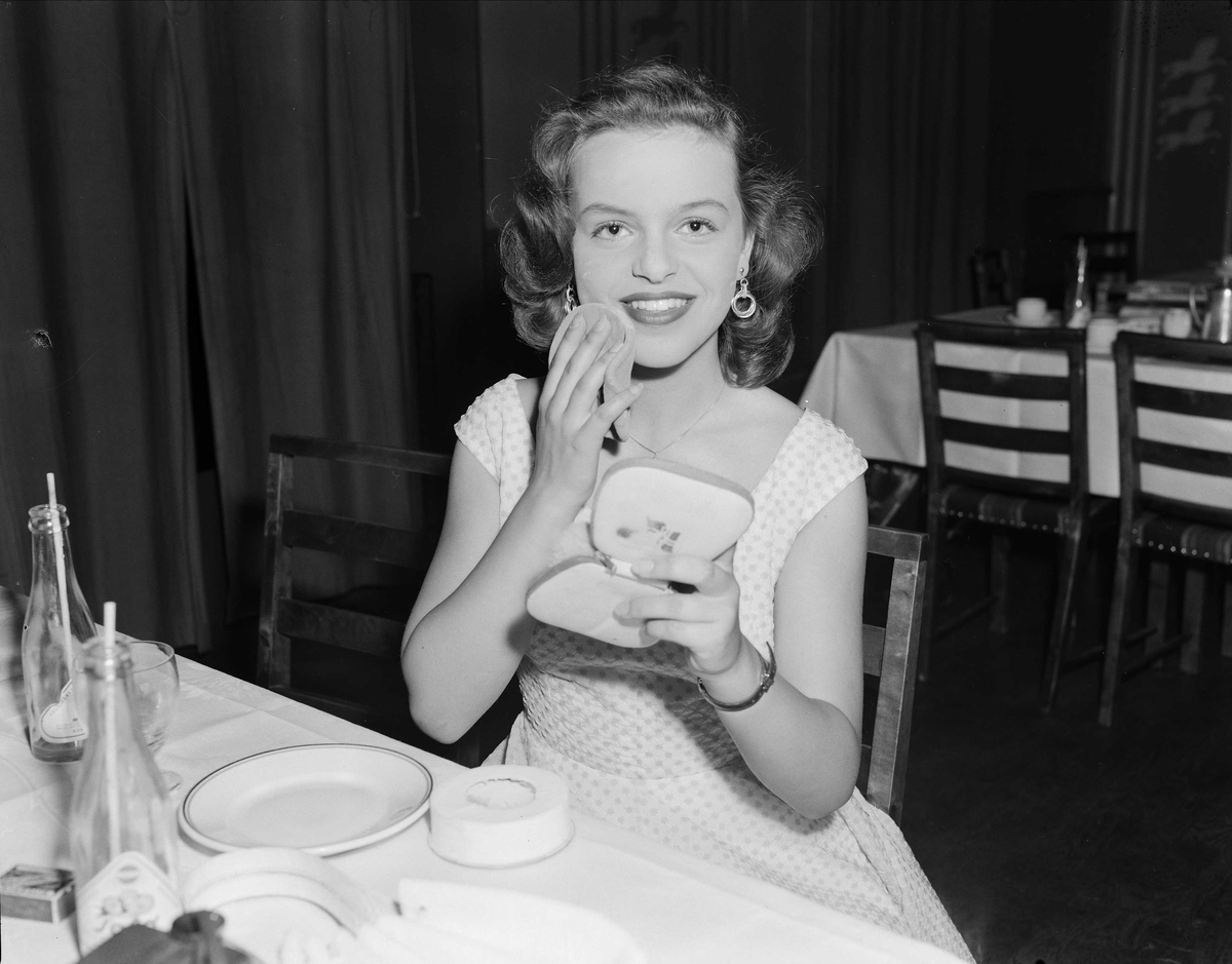 Vigdis Røising (born 6 July 1937 in Oslo, died 9 February 1996 in Oslo) was a Norwegian actress.